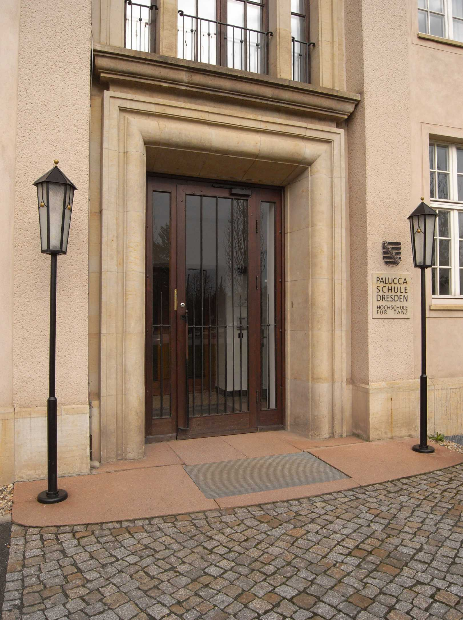 Palucca Campus, Palucca Schule Dresden (Academy for Artistic Dance), main entrance (built 1953-55)